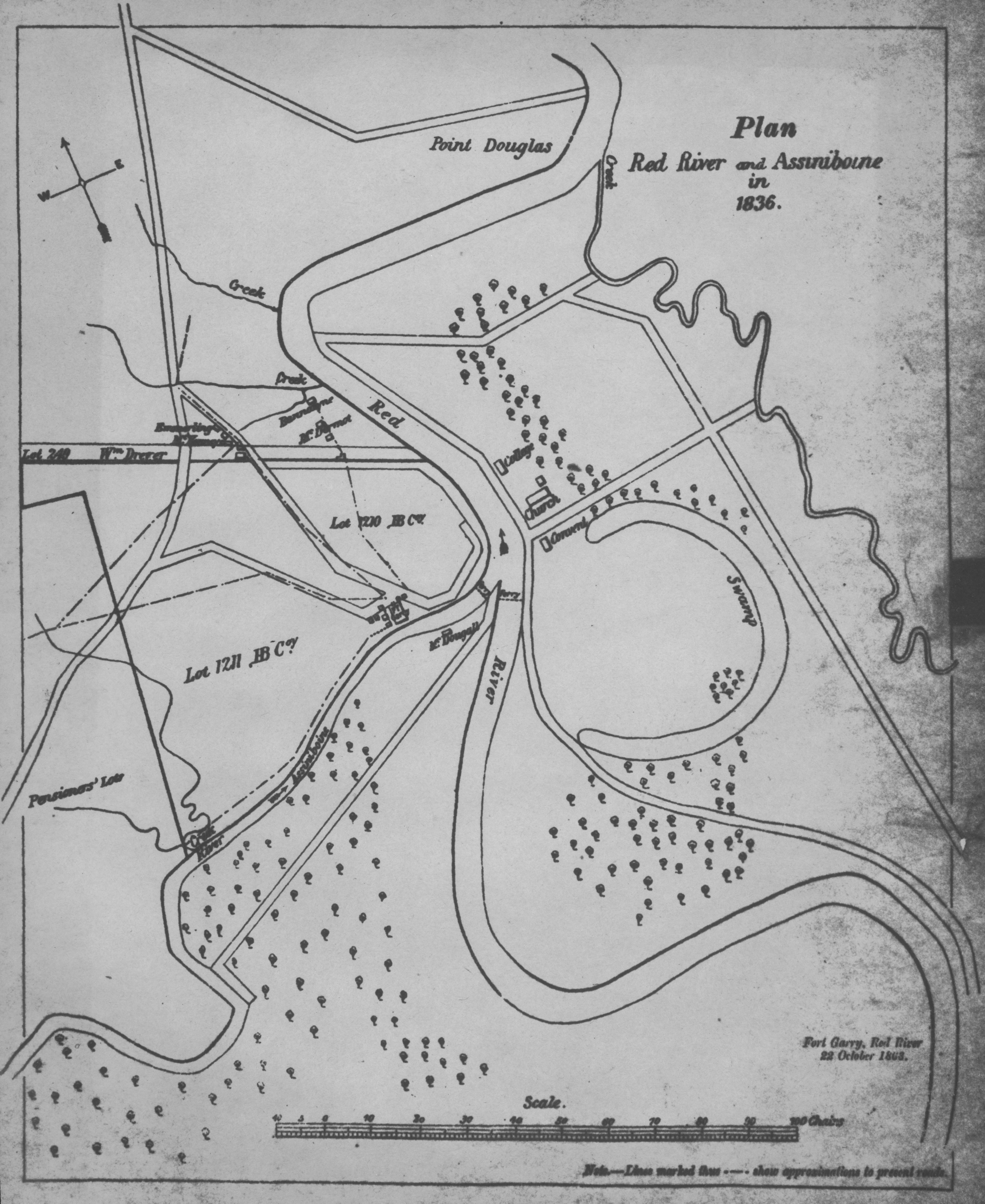 Anonymous. Plan, Red River and Assiniboine in 1836 [map]. 1:7,200. 1863. The copy the scan was made from is blurry. There is a manuscript map, ink on paper with property lines and roads coloured in the Provincial Archives of Manitoba. The provenance of this map is uncertain. Ostensibly it is a plan of Red River Settlement in 1836, with, however, further features added in 1863, particularly houses and locations of ferrys. The double lines appear to be property boundaries, and in some instances they also mark the locations of roads. The solid lines, for example those connecting the A.G.B Bannatyne home with Fort Garry, are roads which were in existence in 1863 when the map was presumably copied. Of greatest significance are the relationships of the three main components of Red River Settlement, shown as they were in 1863: (i) Fort Garry, (ii) the new centre, where George (Dutch George) Emmerling and Henry McKenney had their stores, and Bannatyne and Andrew McDermot their homes, and (iii) the French community across the river. The swamp in St. Boniface, presently drained and occupied by Enfield Crescent, is an oxbow of the Red River. (Warkentin and Ruggles. Historical Atlas of Manitoba. map 76, p. 190) Image Courtesy of University of Manitoba Archives & Special Collections